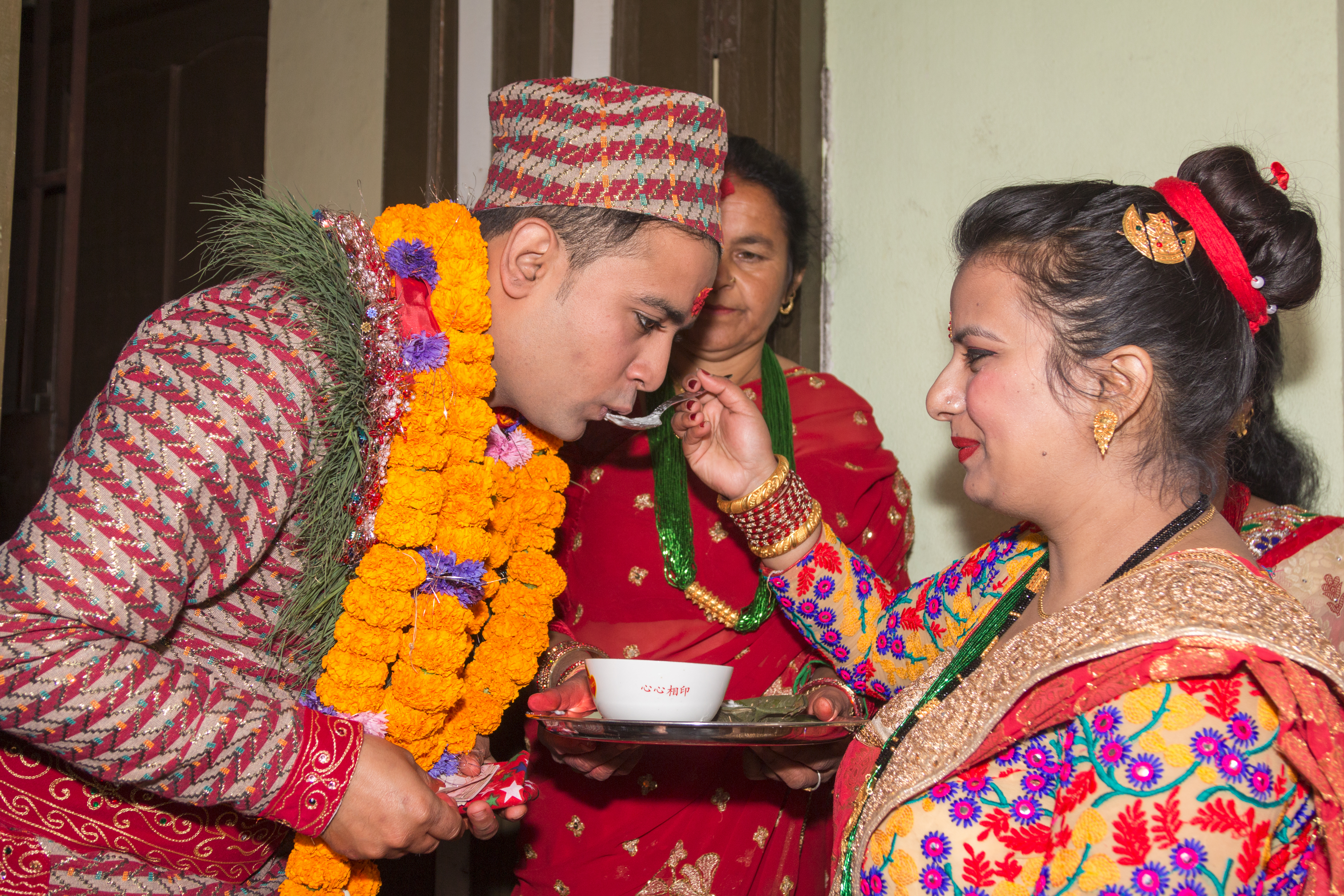 Hindu cultural marriage ceremony and its process.